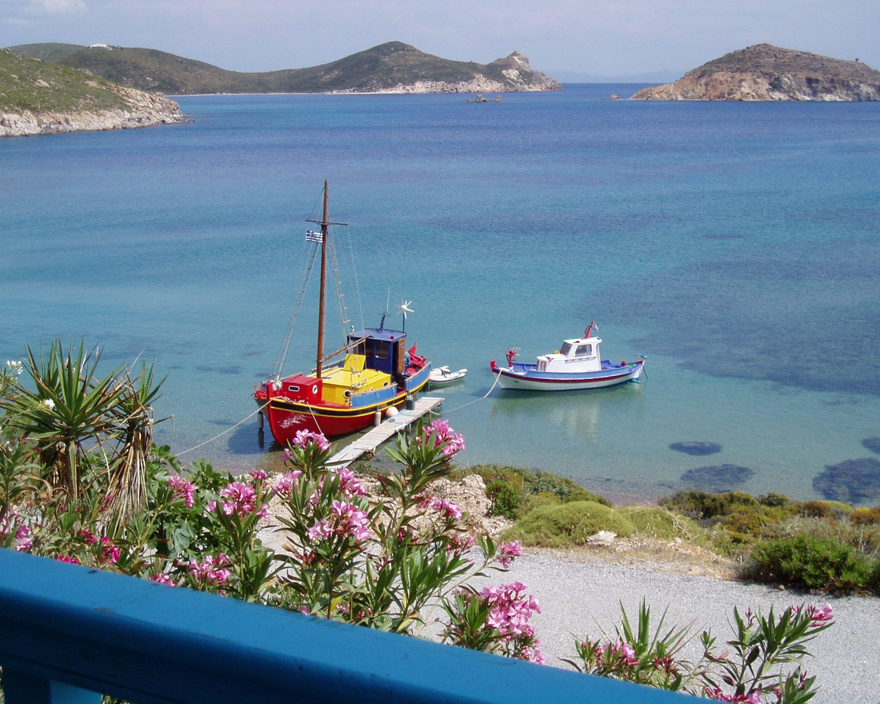 The beach Livadi of Patmos (Greek island)